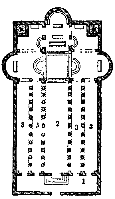 Illustration from 1911 Encyclopædia Britannica, article BASILICA. Fig. 20.—Plan of church of the Nativity, Bethlehem. 1, Narthex; 2, nave; 3, 3, aisles.